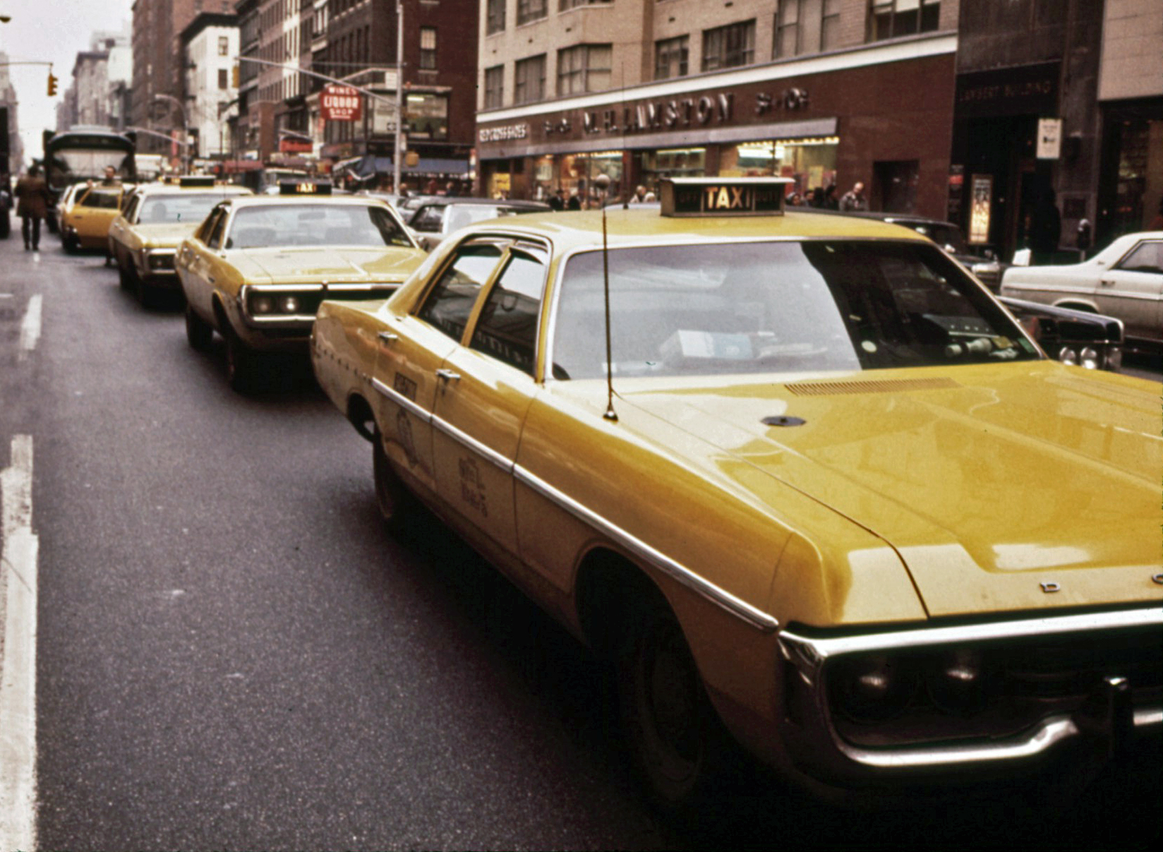 Lineup of yellow cabs (led by a Dodge Polara) seeking fares on Lexington avenue and 61st Street. Crop of File:LINEUP OF FARE-SEEKING TAXIS ON LEXINGTON AVENUE AND 61ST STREET - NARA - 554331.jpg by Dan McCoy.